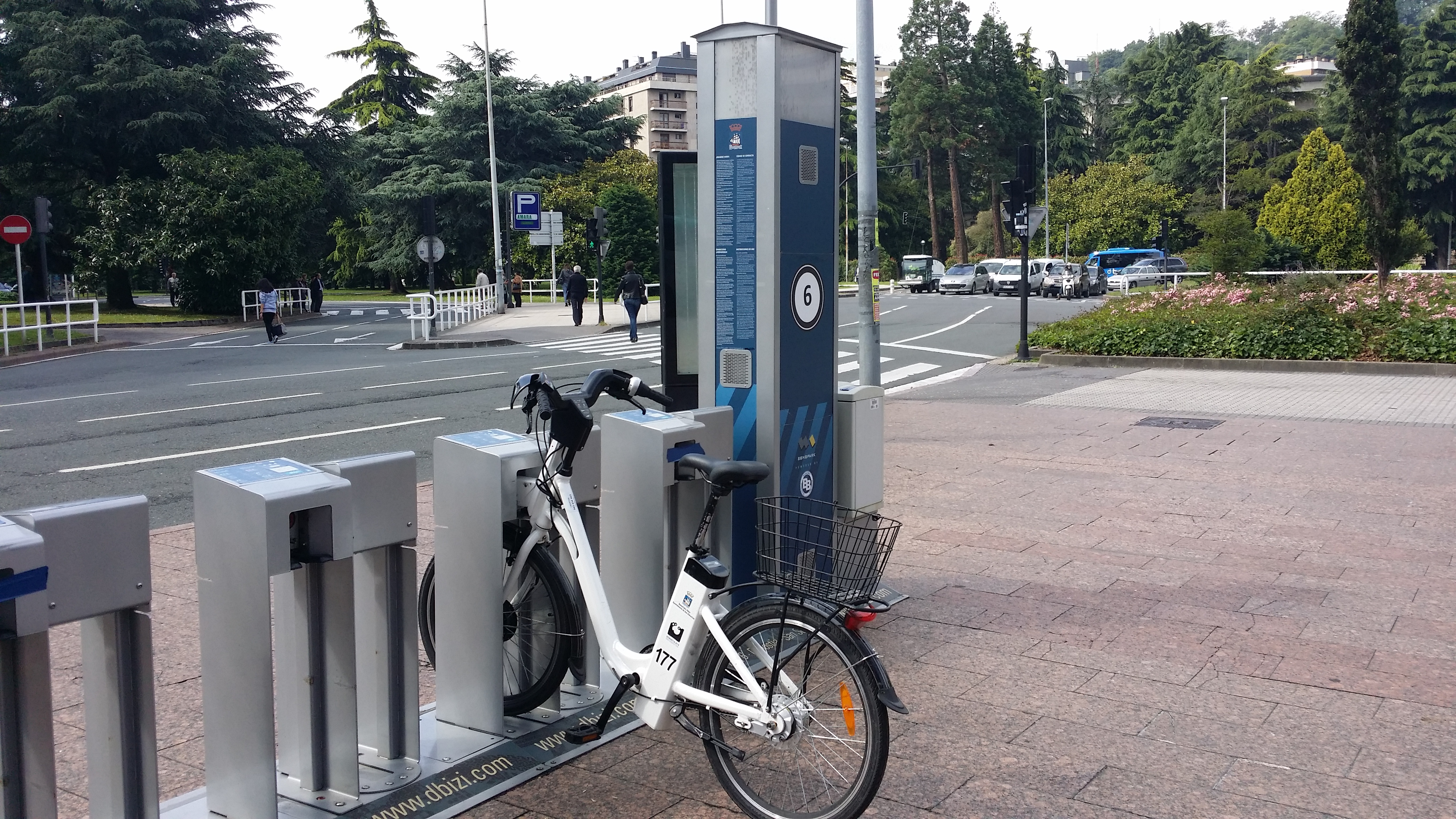 Dbizi station at Pio XII square. 2015.